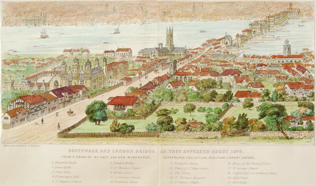 Southwark, Surrey, bird's eye panorama, 19th century engraving after an original drawing dated 1546 by Anton van den Wyngaerde (1525-1571), Sutherland Collection, Bodleian Library, Oxford. The large mansion house on the west side of Southwark High Street is Suffolk House, town house of Charles Brandon, 1st Duke of Suffolk, 1st Viscount Lisle (c. 1484-1545). Now Borough High Street, it was the main thoroughfare from London Bridge and the City of London to Canterbury and Dover, as taken by monarchs and by the pilgrims in Chaucer's Pilgrim's Progress.